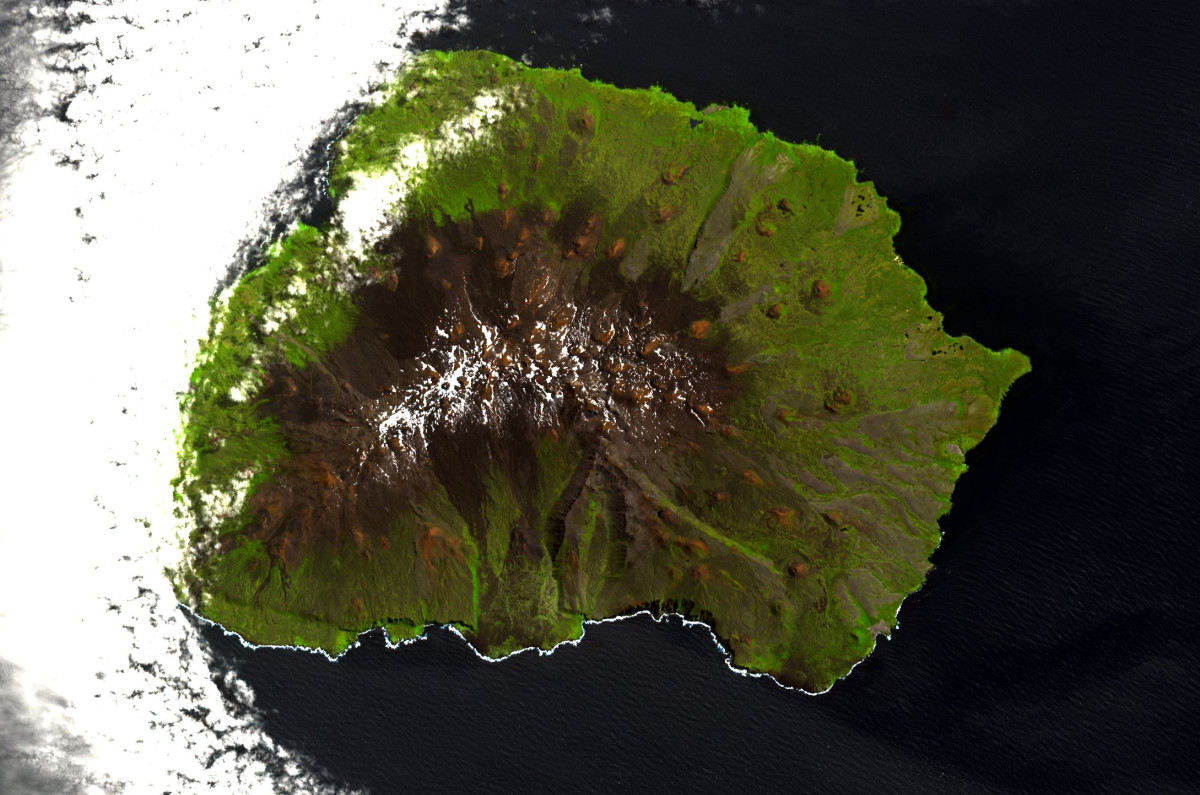 NASA Terra ASTER image of Marion Island, Prince Edward Islands, in the Southern Indian Ocean